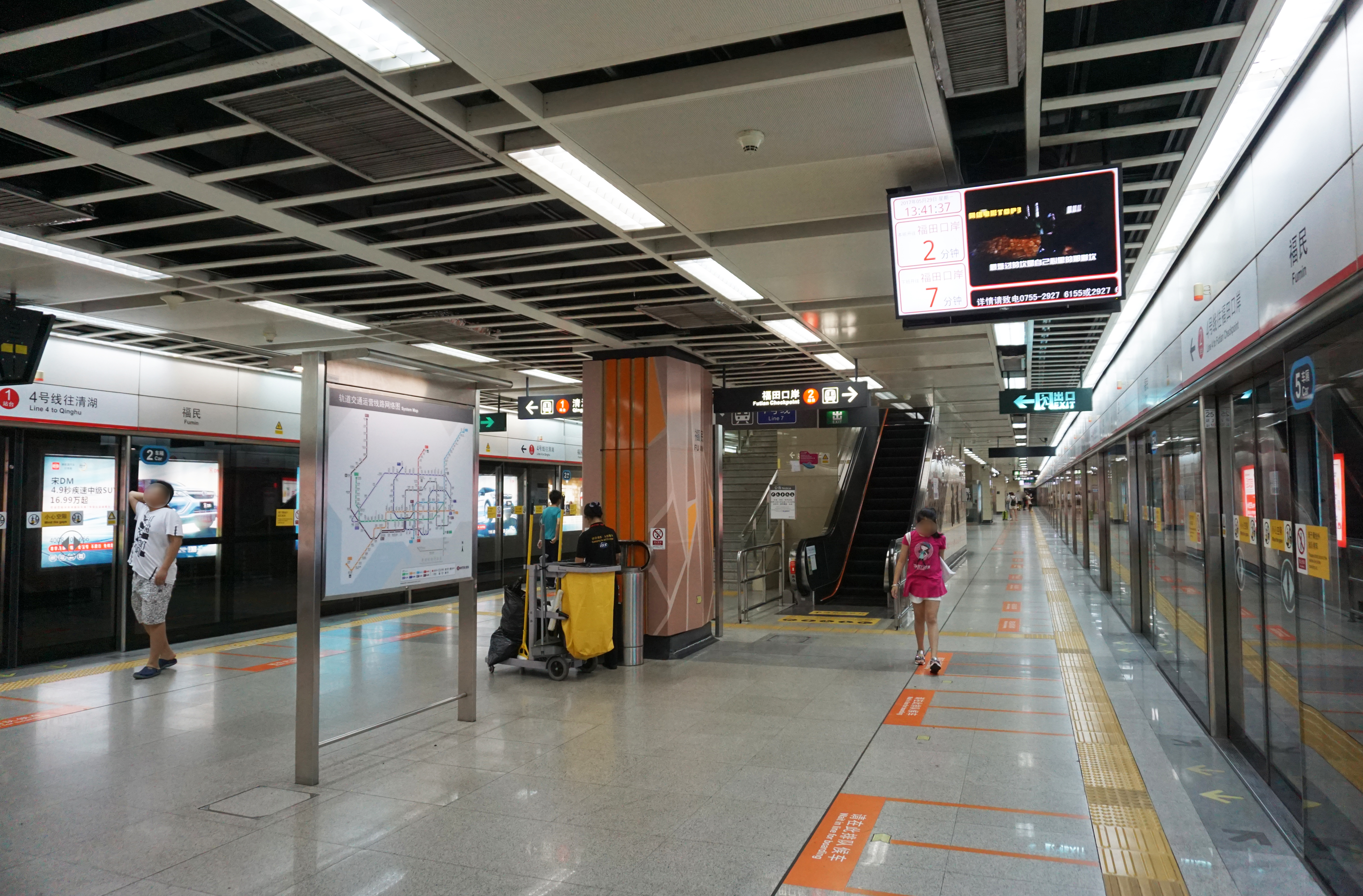 Fumin Station in Huanggang Port, Shenzhen.